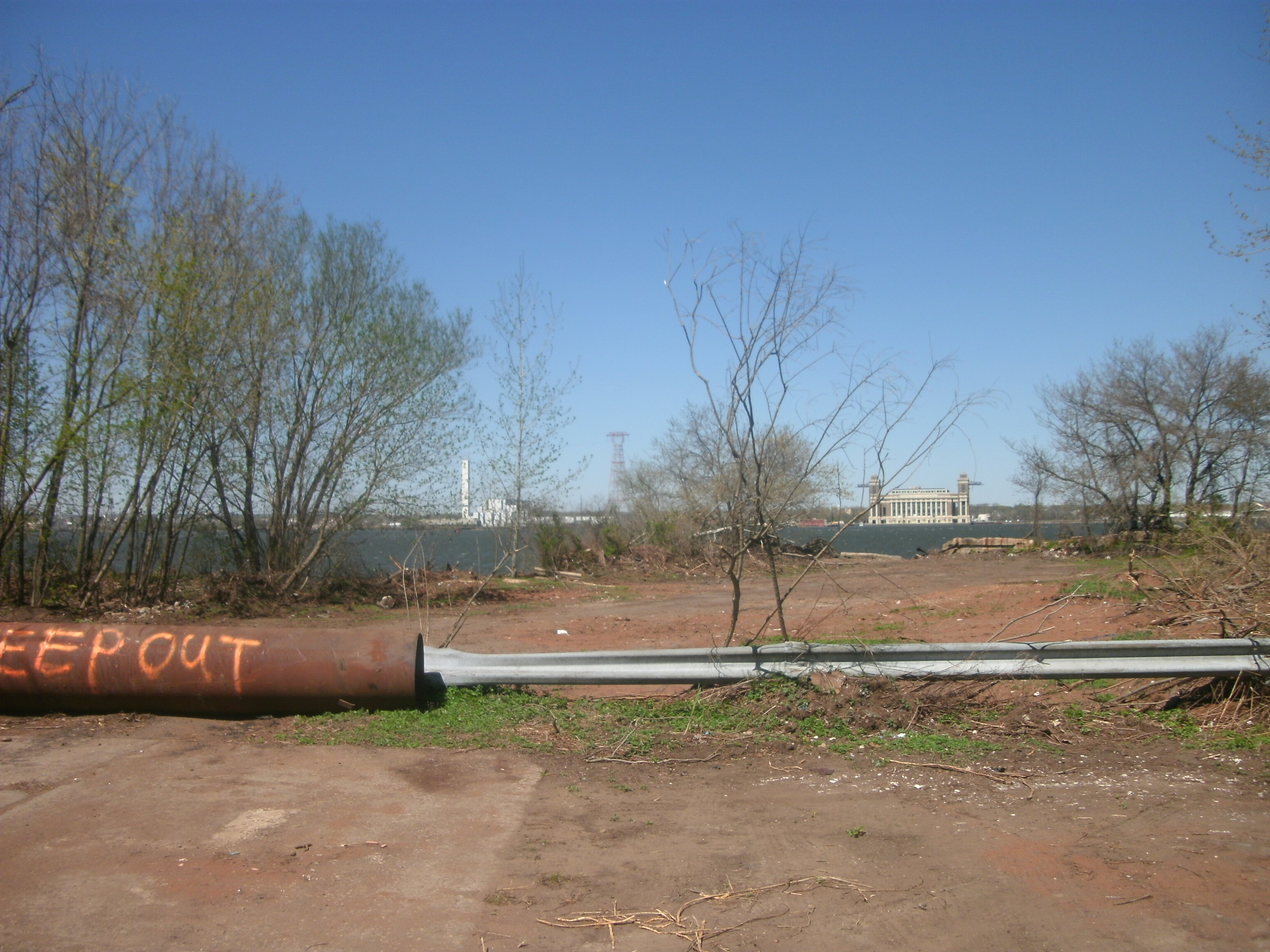 The former ferry landing site for the ferry between Chester, Pennsylvania and Bridgeport, New Jersey that currently serves as the western terminus of New Jersey Route 324.